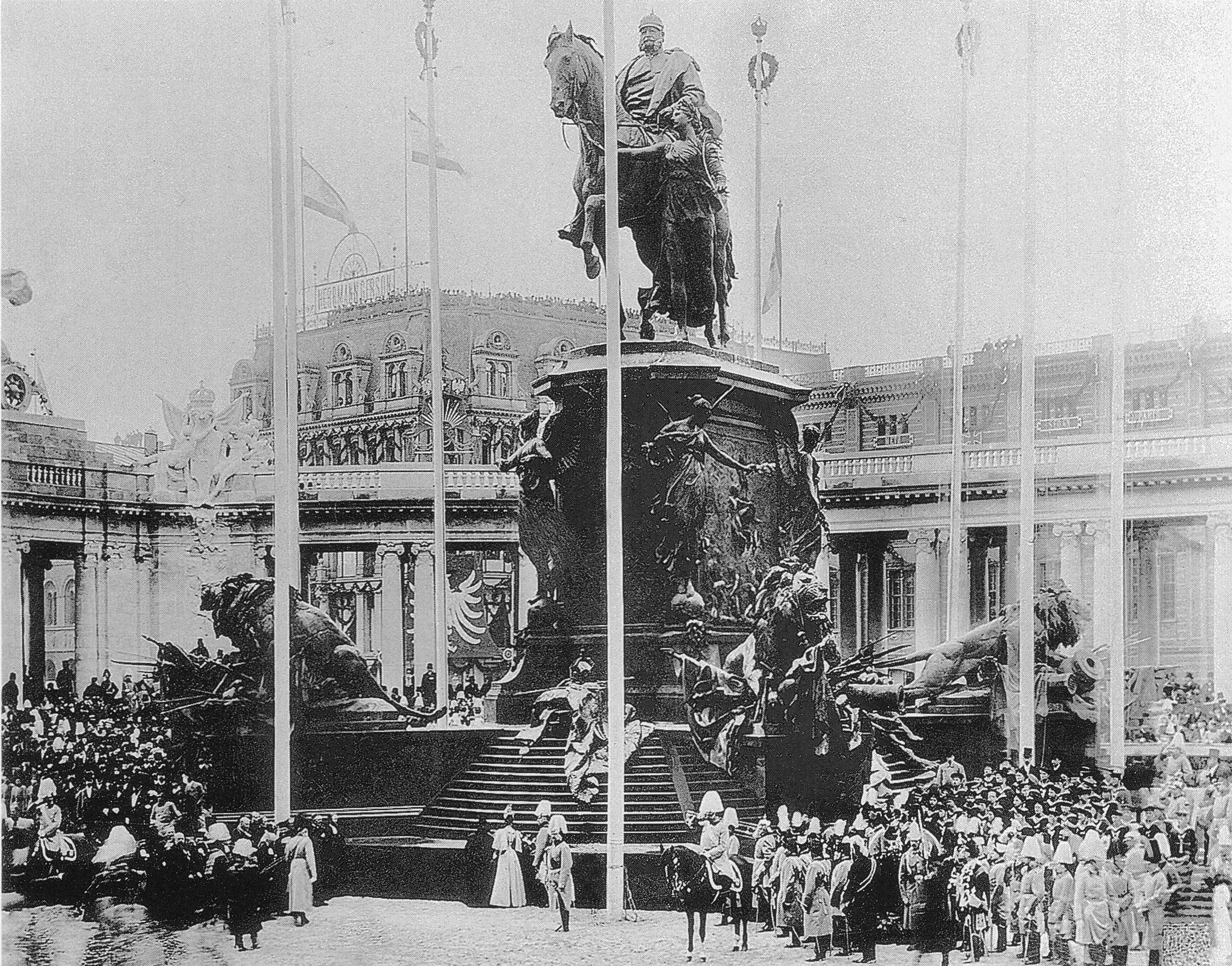 Dedication of the Emperor William National Monument on Schlossfreiheit in Berlin in 1897.